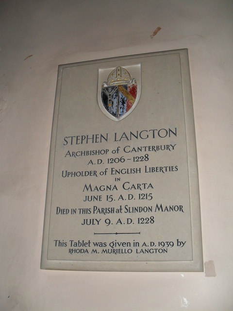 Memorial to Stephen Langton within St Mary, Slindon For more information see Stephen_Langton